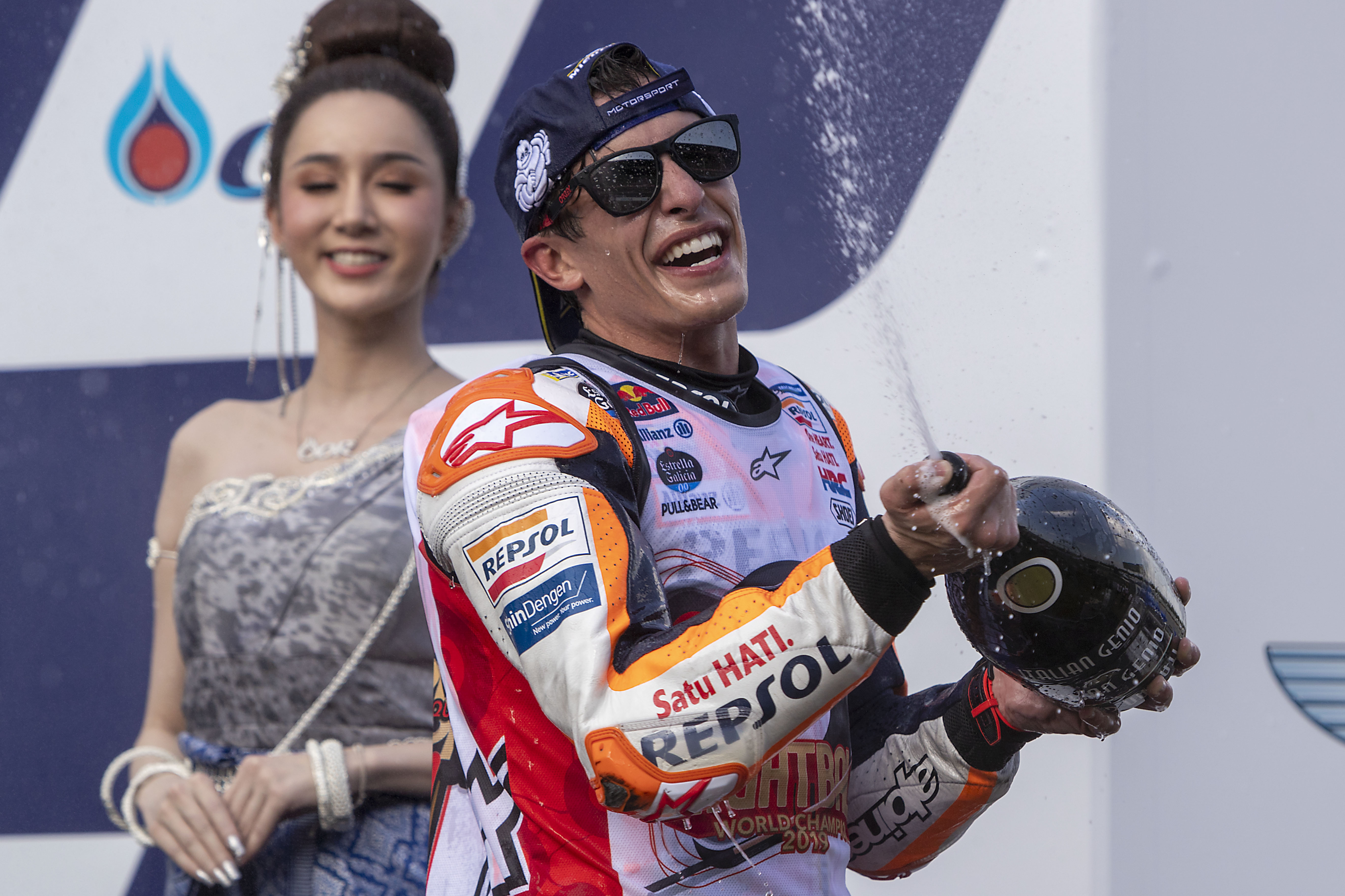 Marc Márquez, spraying the champagne and celebrating on the podium after winning his sixth MotoGP world championship title and the 2019 Thai Grand Prix.